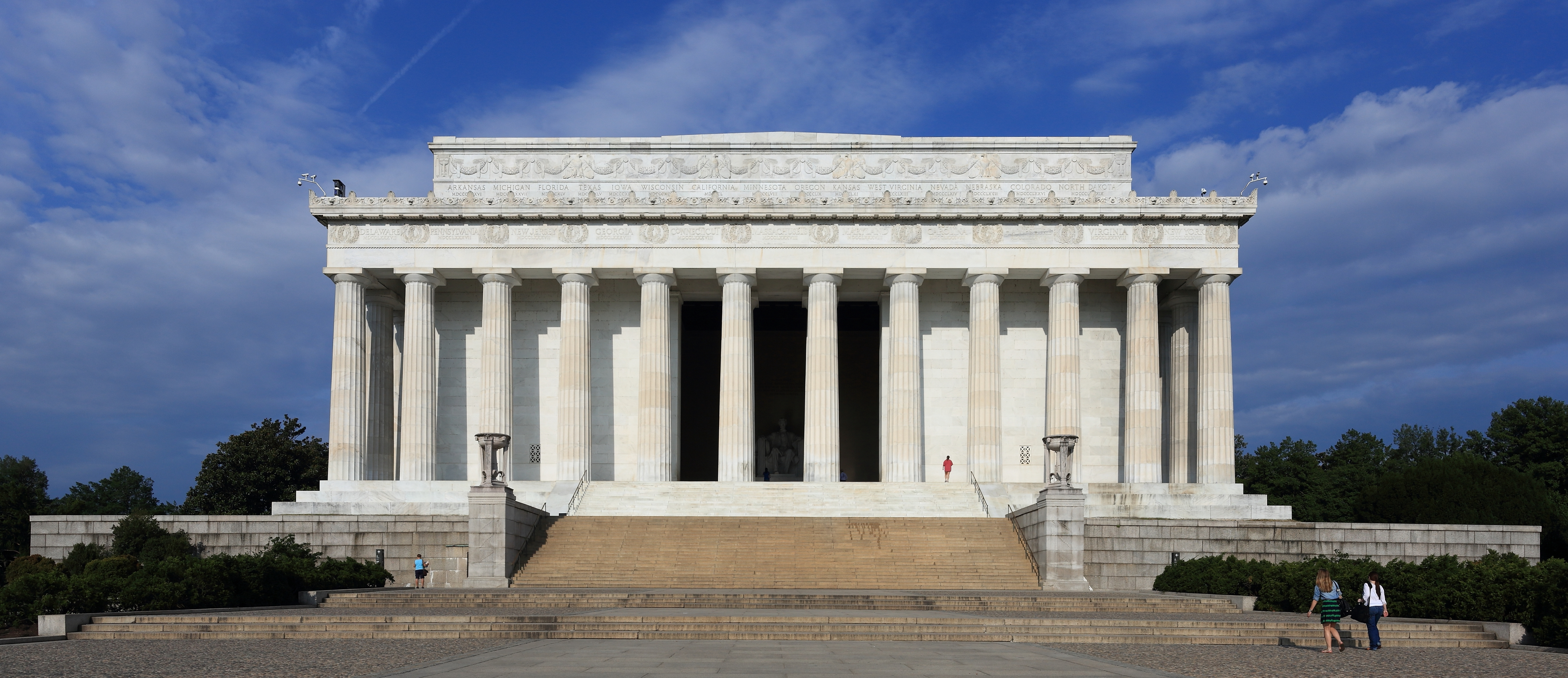 Lincoln Memorial, east side.